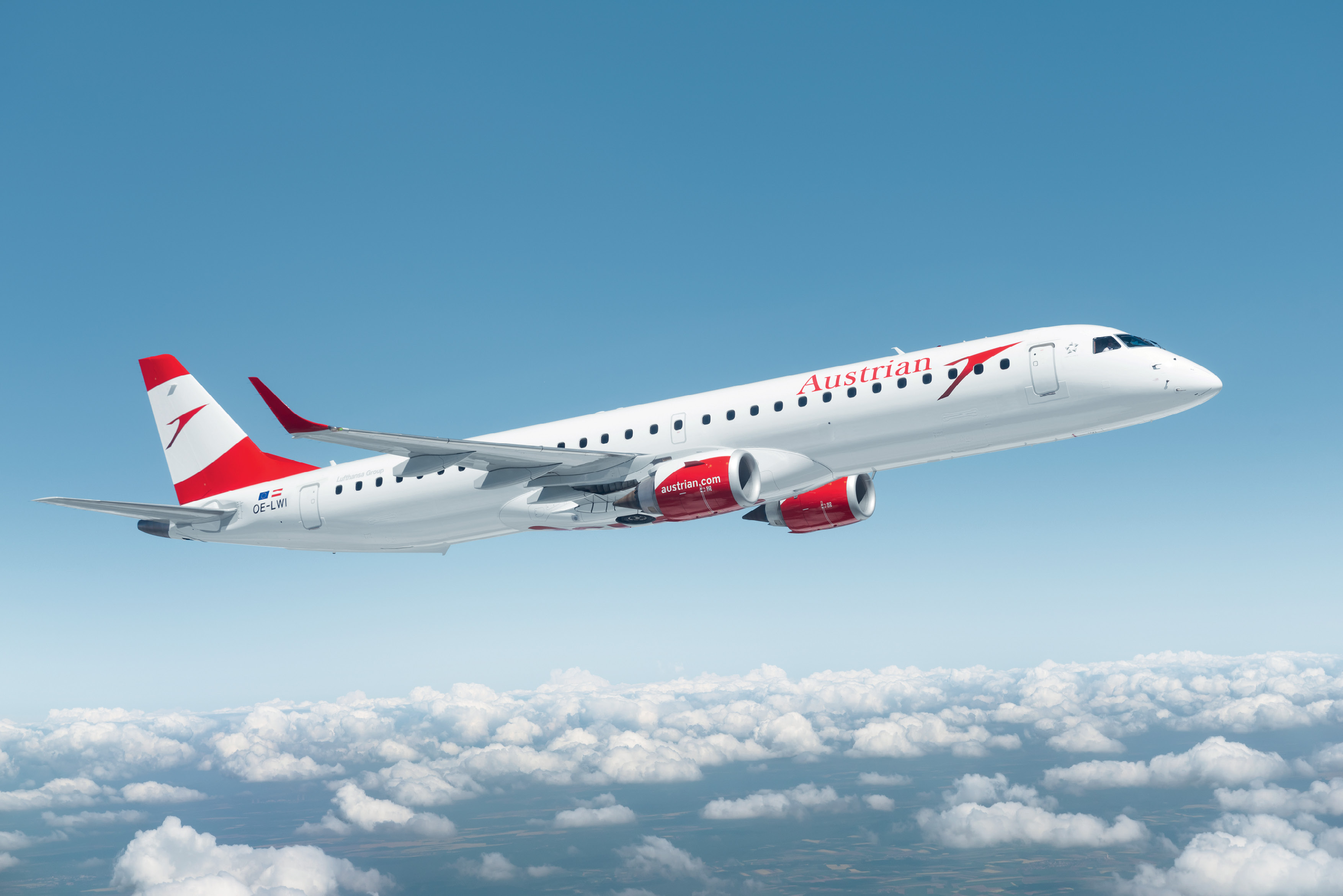 Austrian Airlines Embraer 195 (OE-LWI)